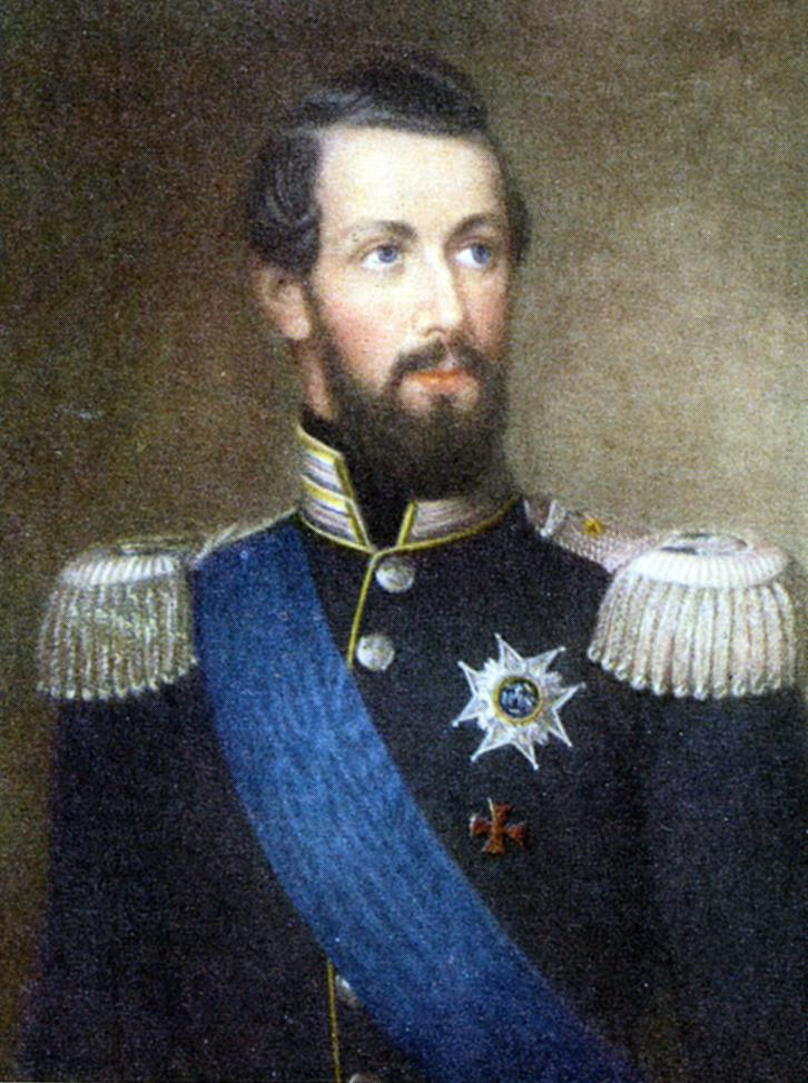 Crown Prince Carl (XV) of Sweden and Norway (1826-1872)